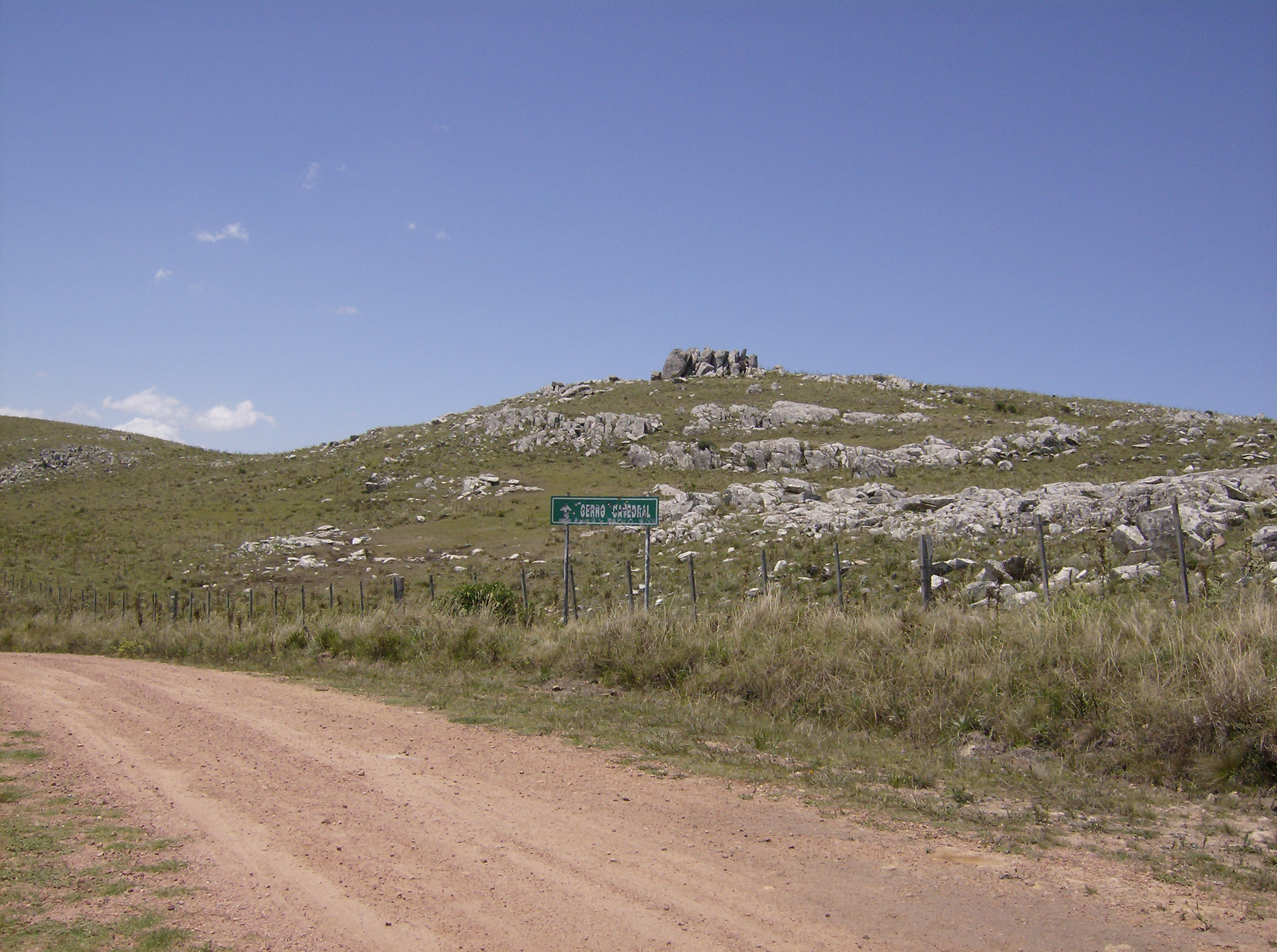 Cerro Catedral (or Cerro Cordillera), the highest point in Uruguay, with an altitude of 513.66 metres (1,685.24 feet), near a dirt road (Ruta 109).